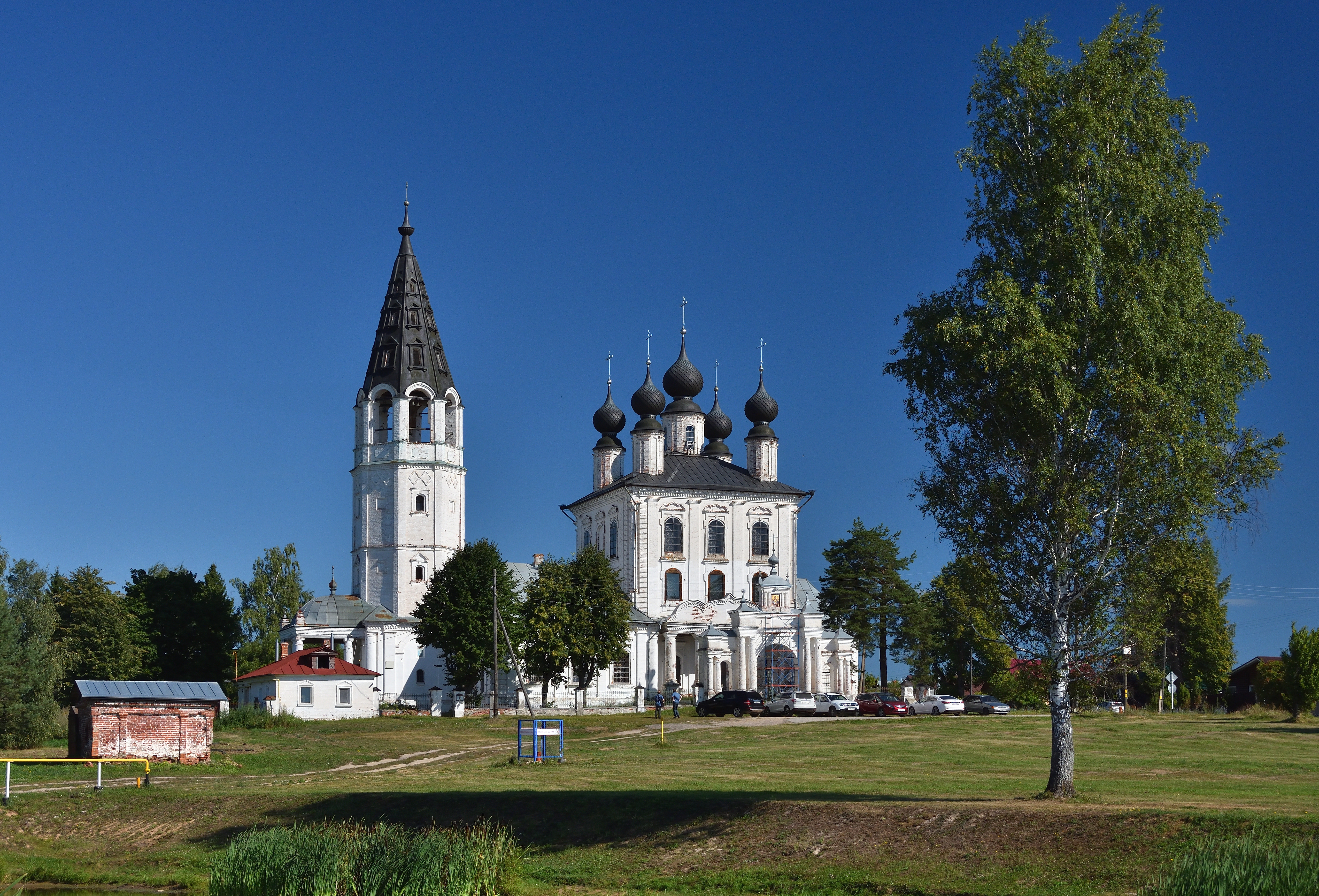 Church of the Theotokos of the Sign, Krasnoye, Palekhcky district, Ivanovo Oblast, Russia